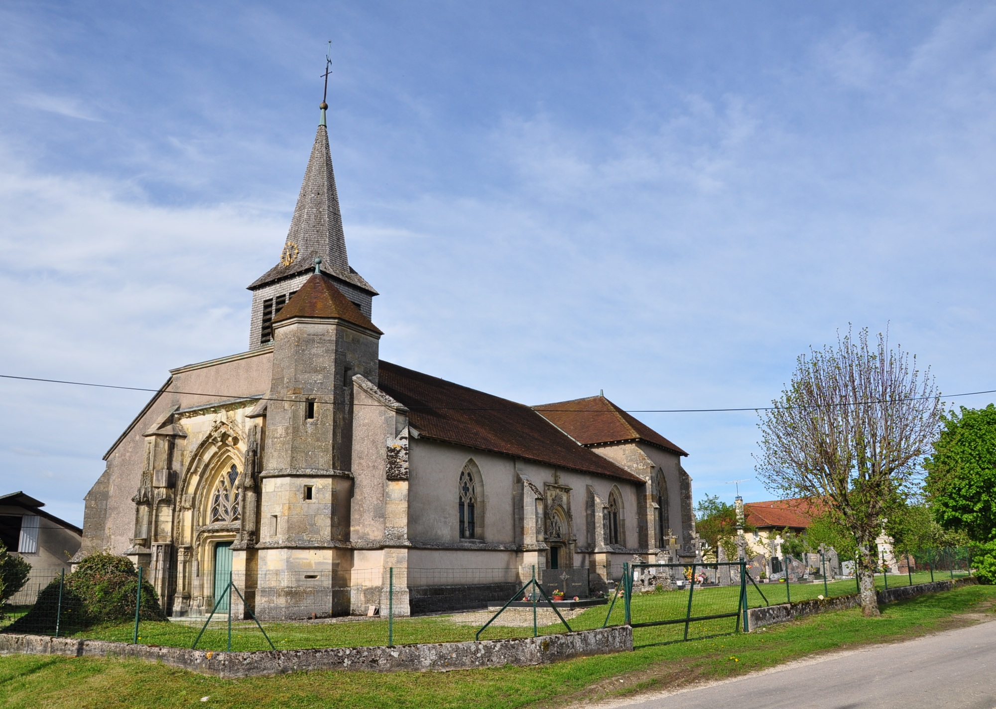 Parish Church of St. John the Baptist and cemetery of Foucaucourt-sur-Thabas (Canton Seuil-d'Argonne, Meuse department, Lorraine region, France). This church is a listed building.